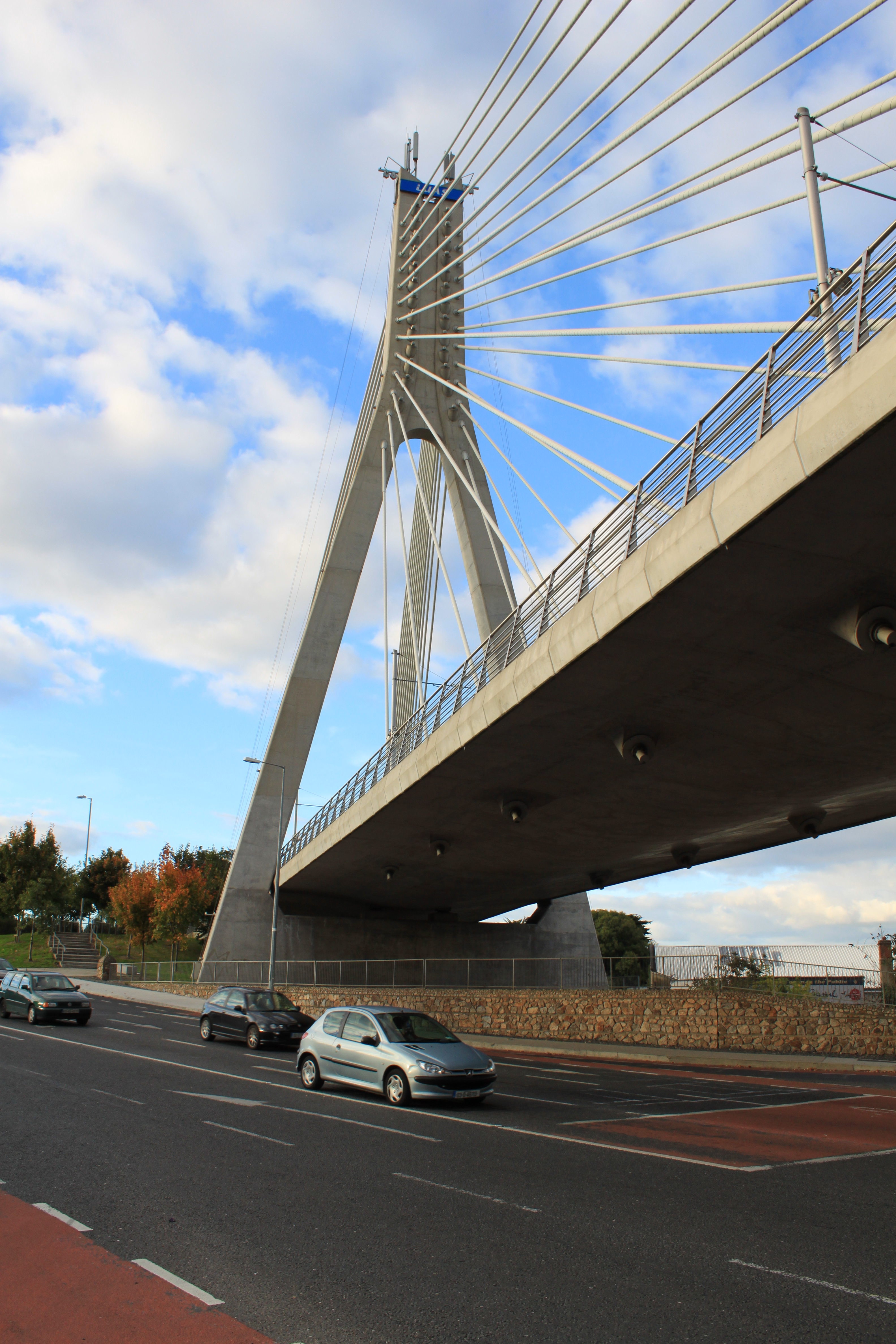 William Dargan Bridge near the Dundrum Luas stop.